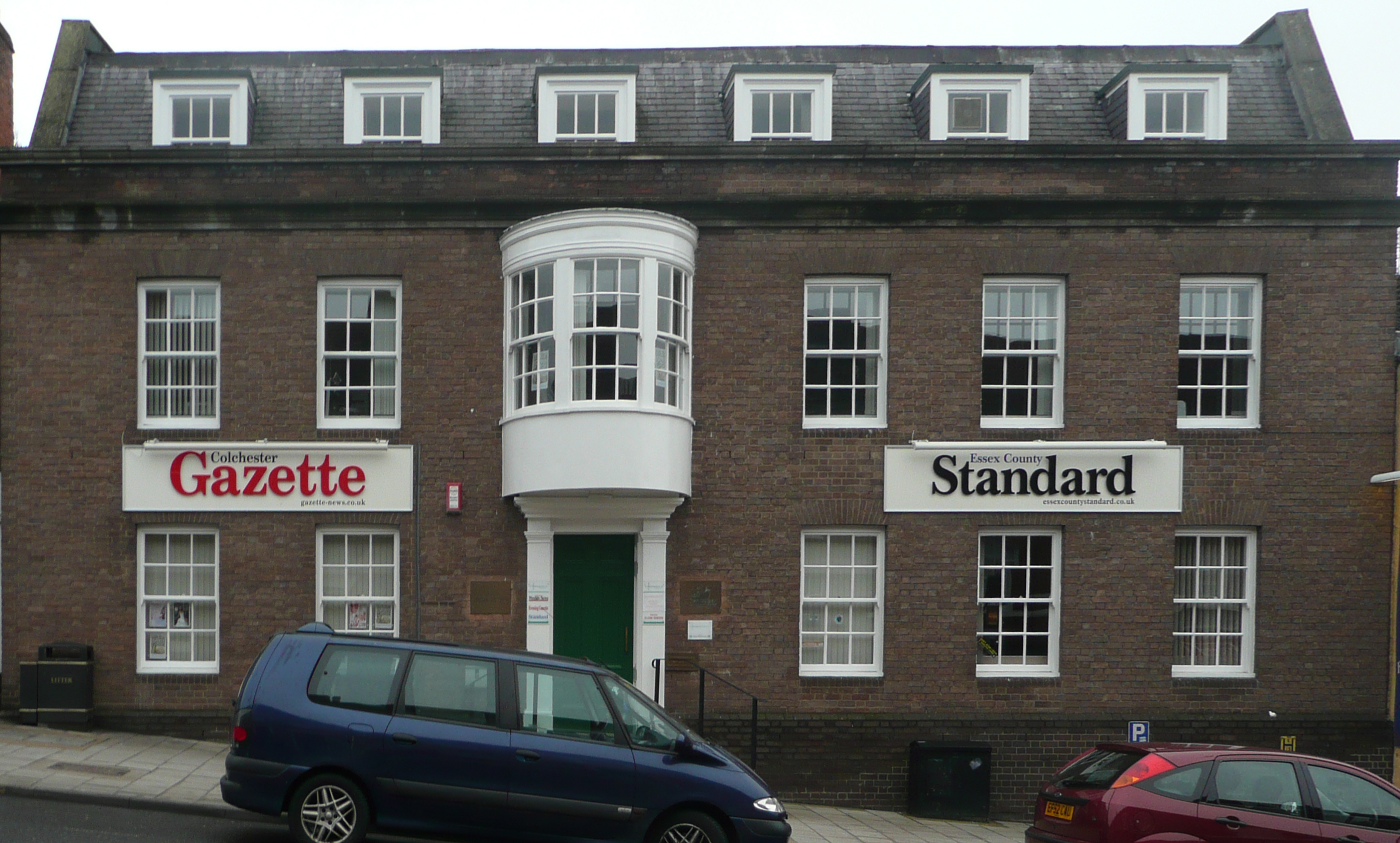 The buildings of the Essex County Standard (and Colchester Gazette) on Head Street, Colchester. Some perspective correction was used.